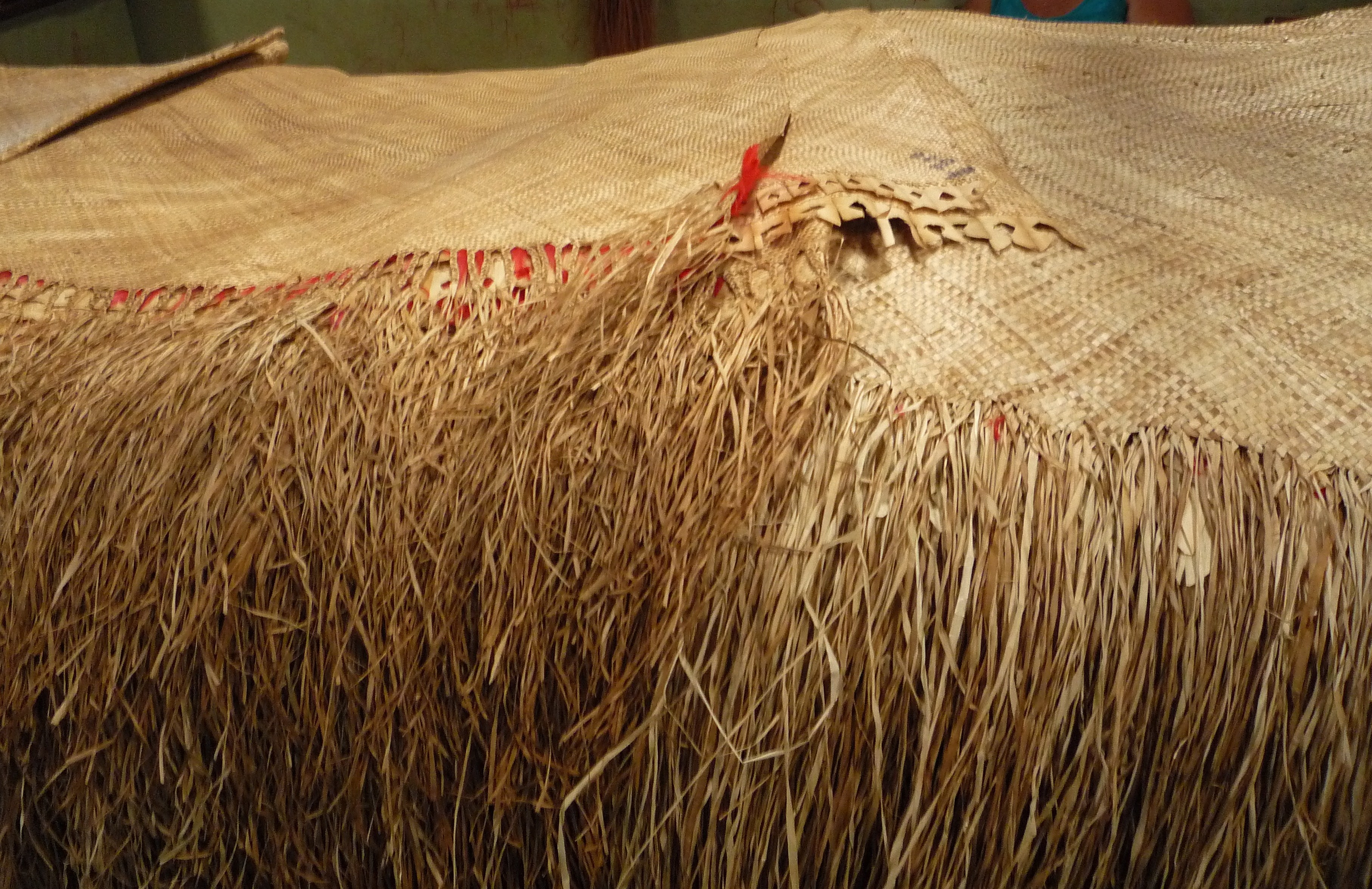 Samoa traditional fine mat called an ie toga - being sold at the market in Apia. The mats are highly valued although with variations in quality depending on the softness and fineness of the weave.